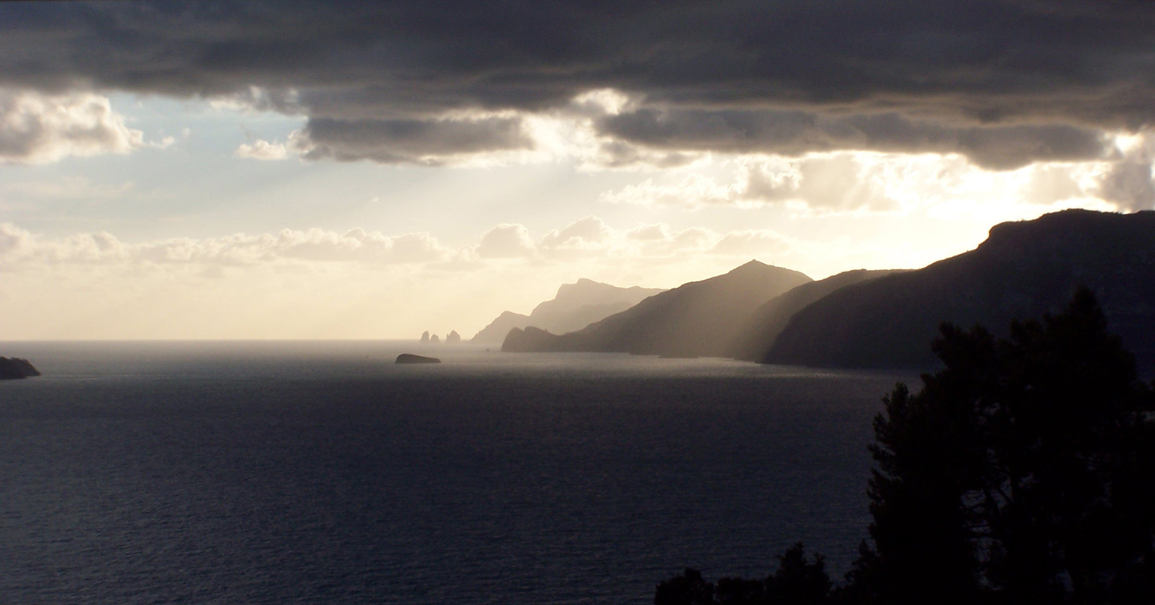 Sunset on the Amalfi coast, looking west out of the window of a bus near Positano